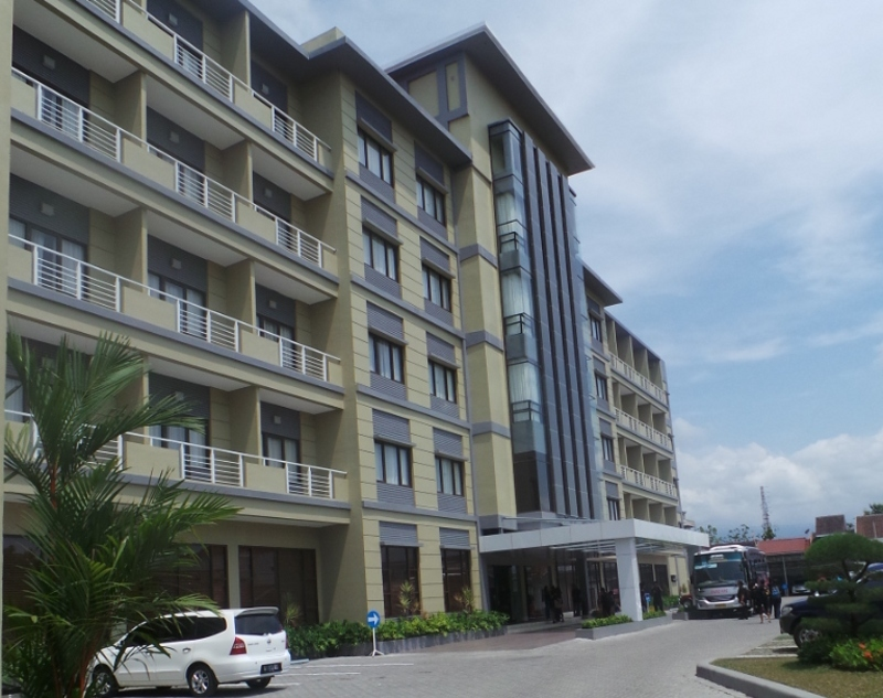 Santika Hotel - Purwokero